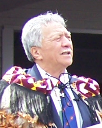 Sir Archie Taiaroa speaks after his redesignation as KNZM, at Hato Paora College, Feilding, on 21 October 2009.